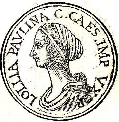 Lollia Paulina was a noble Roman woman who lived in the 1st century.